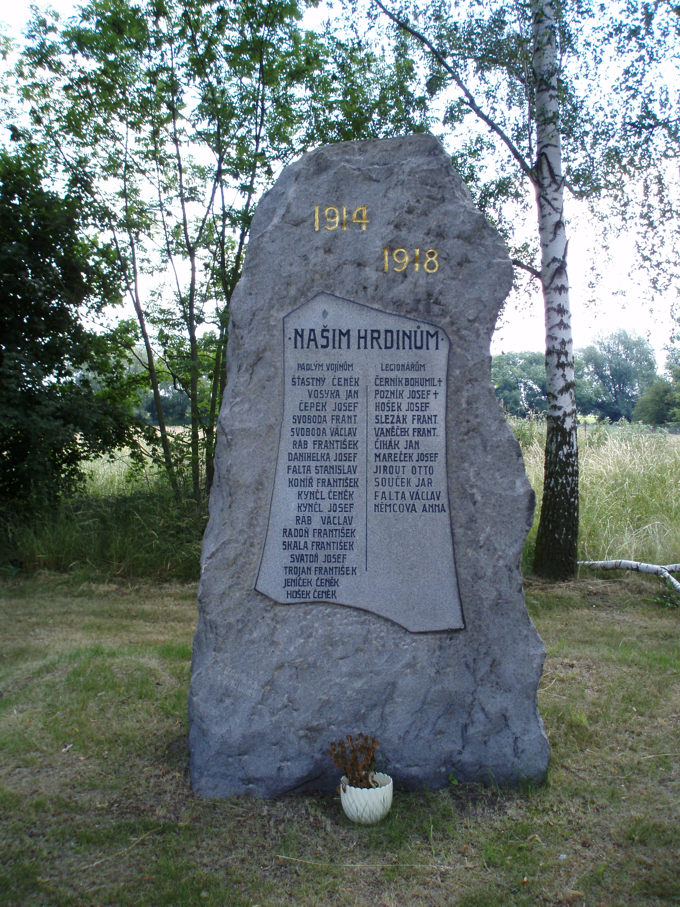 I World War Memorial (Libišany, District of Pardubice)